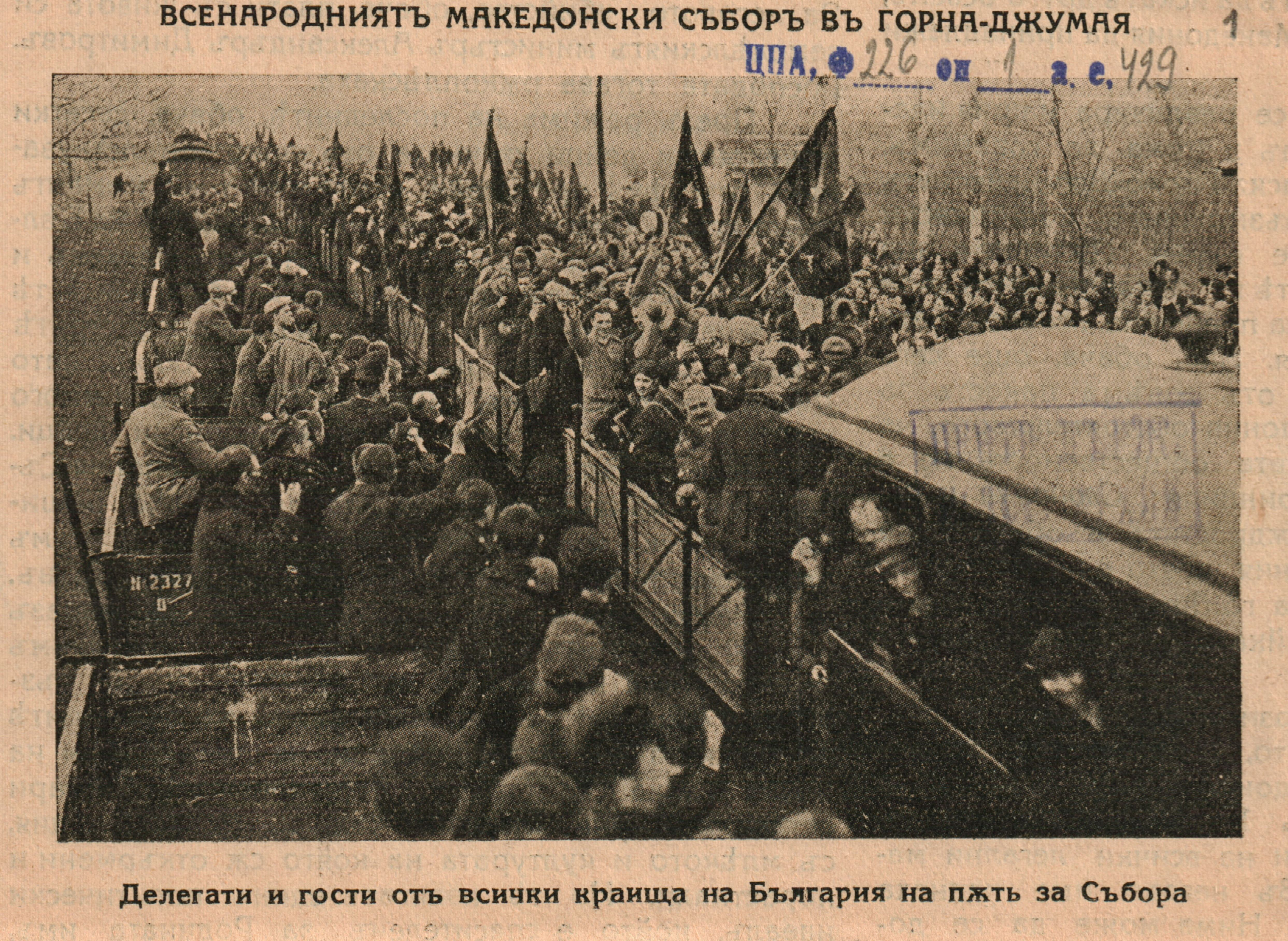 Photo from the Macedonian National Council, 1933 in Gorna Dzhumaya (Blagoevgrad).